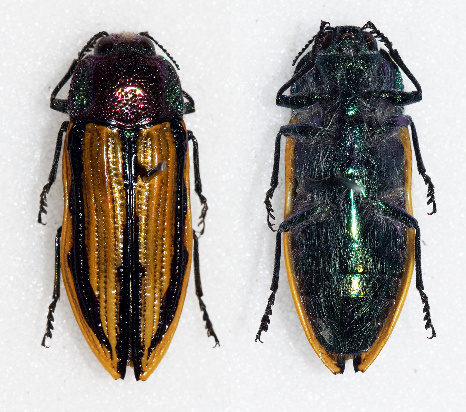 Germain,1855 Sex: ? Data: 24-12-11 - Farellones - Chile Size: 19mm